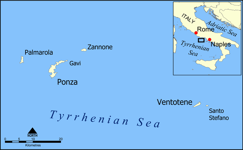 A map of the Pontine Islands off the west coast of Italy, in the Tyrrhenian Sea. This maps shows the islands of Ponza, Ventotene, Zannone, Palmarola, Gavi, and Santo Stefano. Created by NormanEinstein, May 16, 2005.